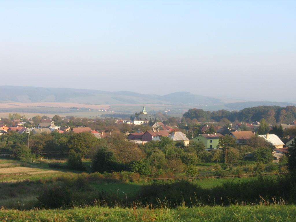 View of Hertníkfrom the nearby Štembroch hill.